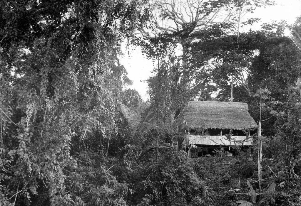 The biological research station Panguana (Peru) in the Year 1971.